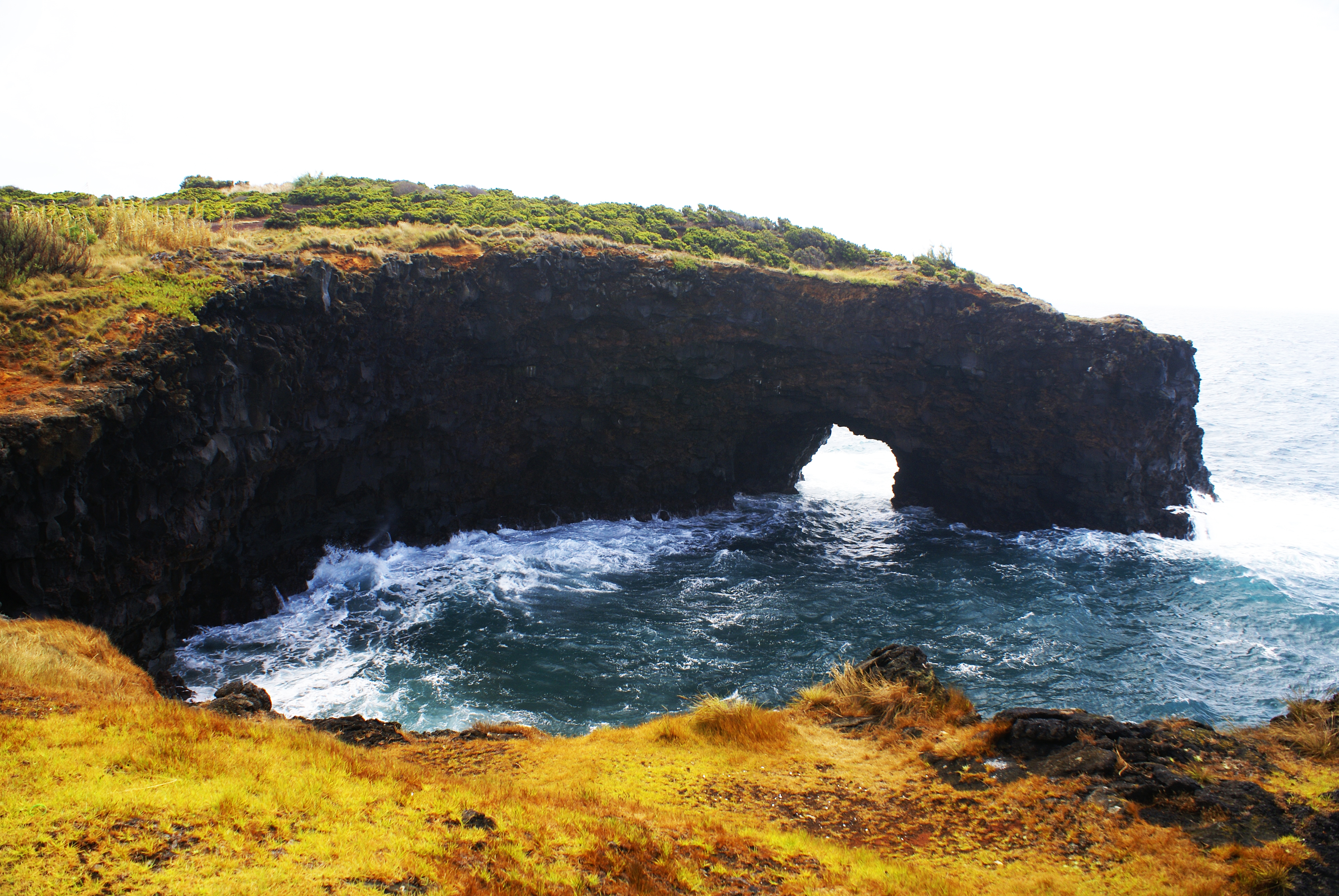 Miradouro da Lajinha, Pedra Furada, Lajinha, concelho da Horta, ilha do Faial, Açores, Portugal